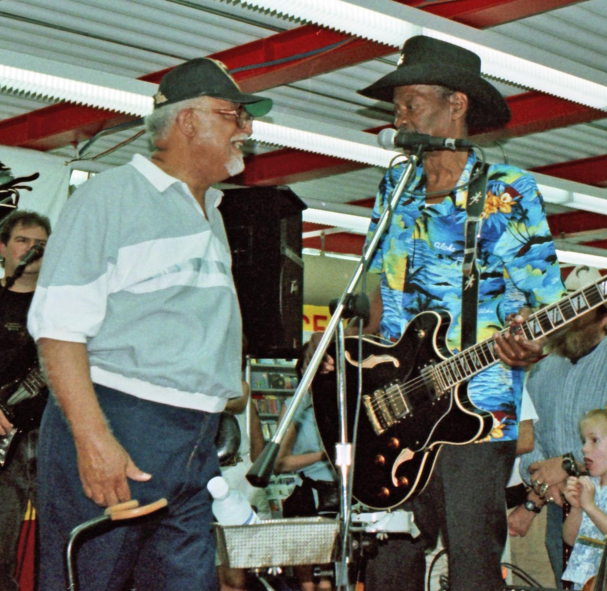 Wardell Quezergue (left) greets Gatemouth Brown at Tower Records, New Orleans, 1997